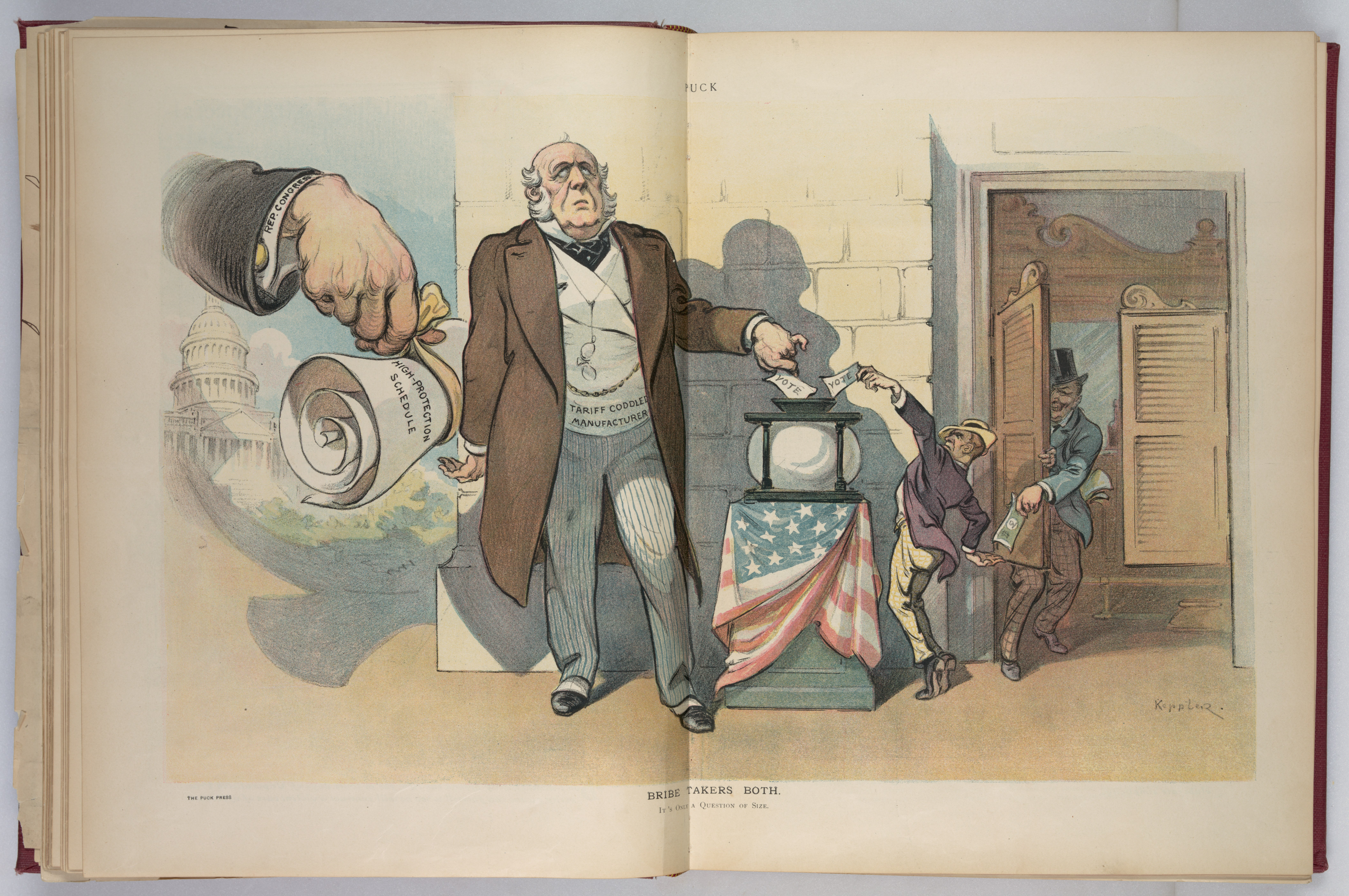 Title: Bribe takers both / Keppler. Abstract/medium: 1 photomechanical print : offset, color.